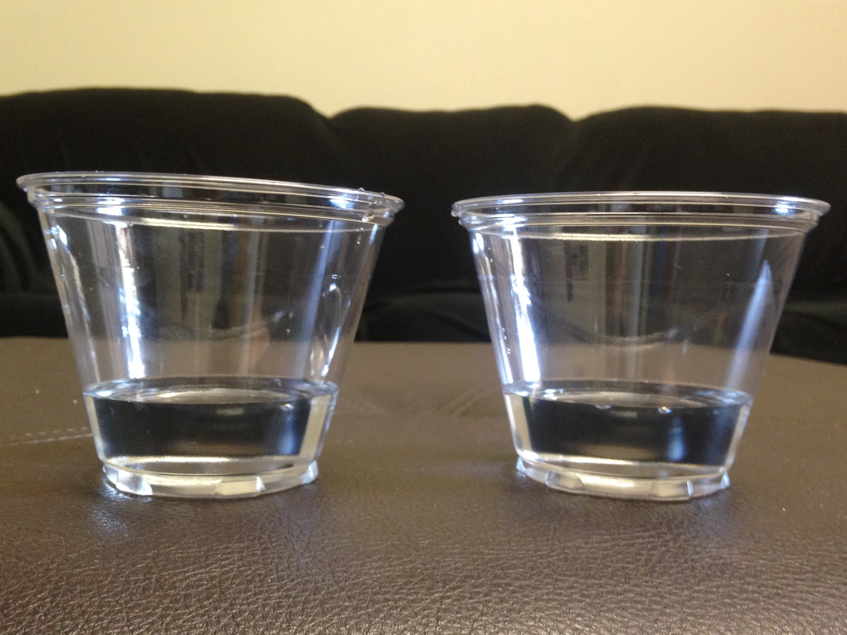 Demonstrating conservation of liquid